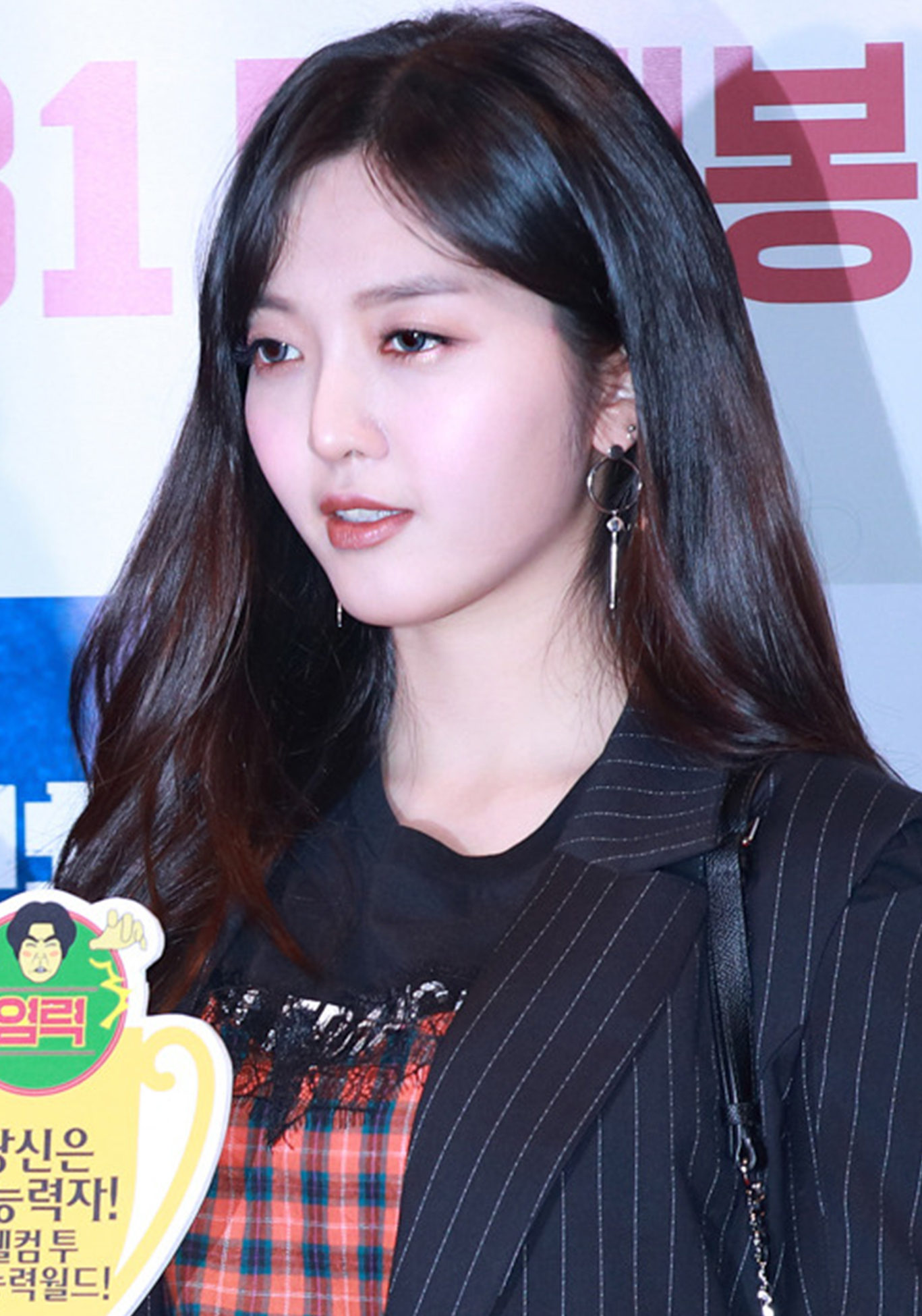 Kim Chan-mi at the VIP premiere of the movie "Psychokinesis" on January 29, 2018.